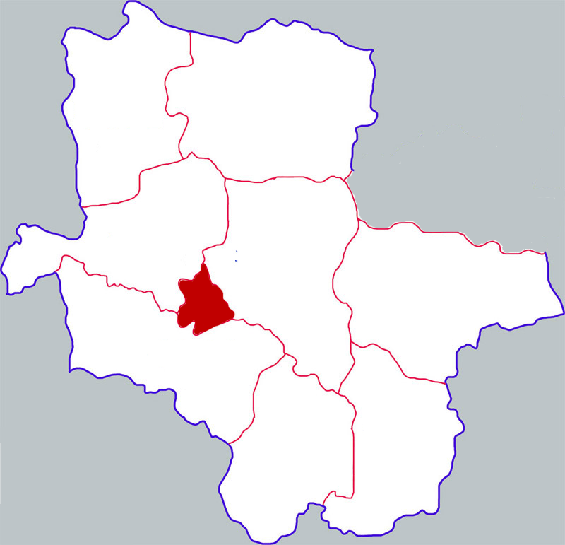 Location of Chuanhui district in Zhoukou city, China